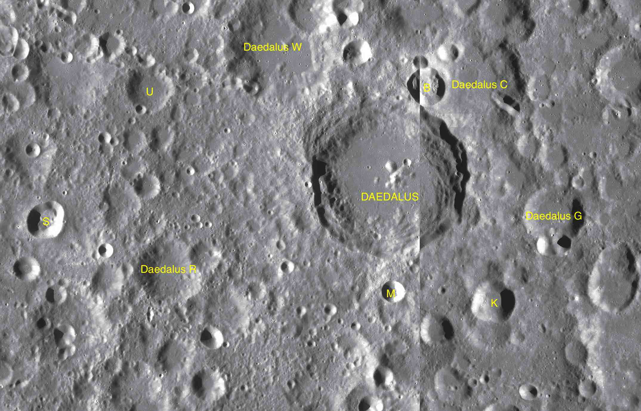 Part of the chart LAC-86 used for the presentation